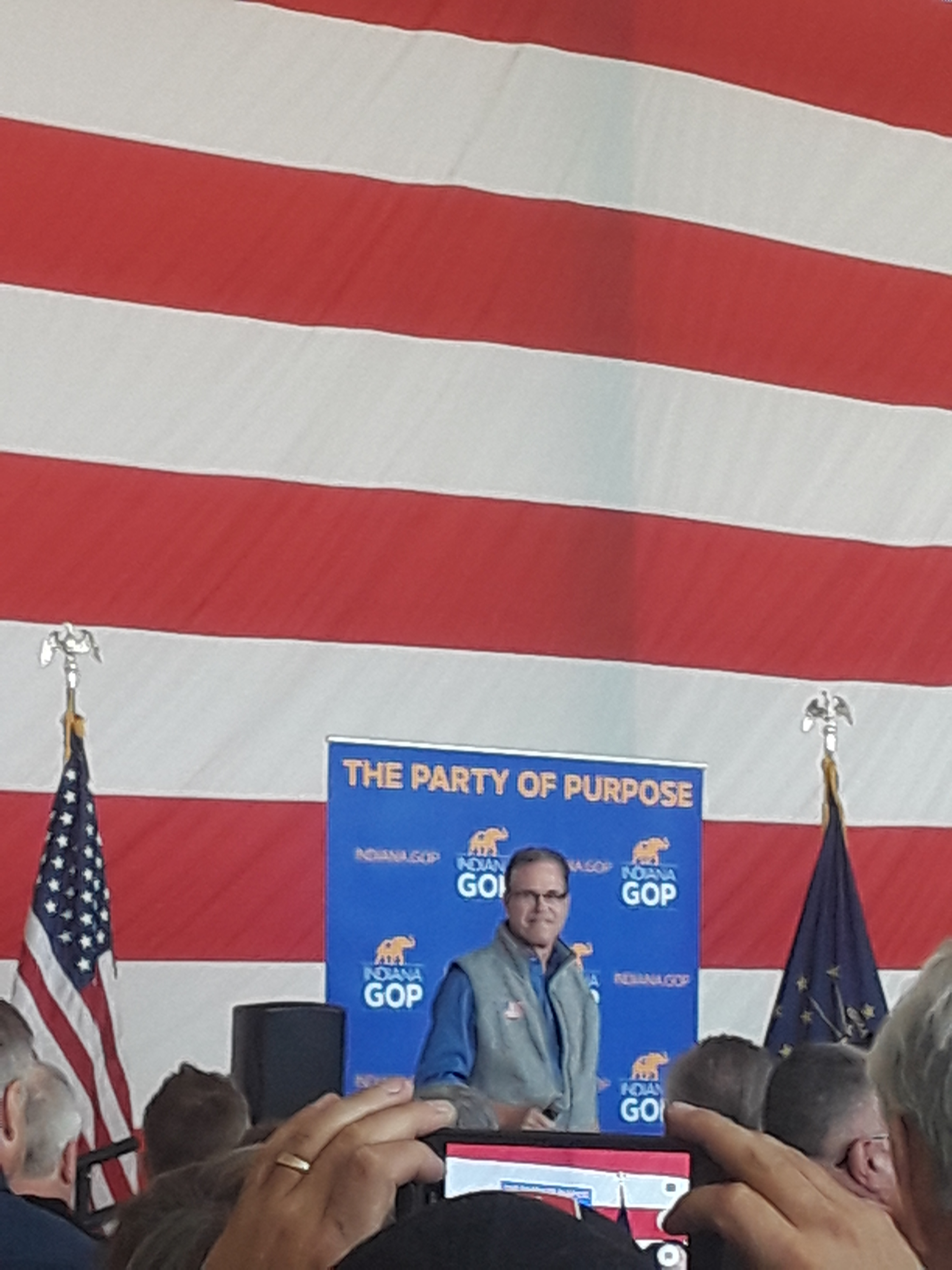 On October 22, 2018, US Senate candidate from Indiana Mike Braun, along with Donald Trump Jr., Kimberly Guilfoyle, Governor Eric Holcomb, Senator Todd Young, and Greg Pence hosted a rally in Greenfield, Indiana. Here is a picture of Mike Braun at the podium